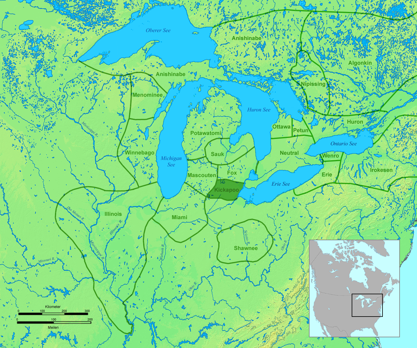 Tribal territory of Kickapoo about 1650